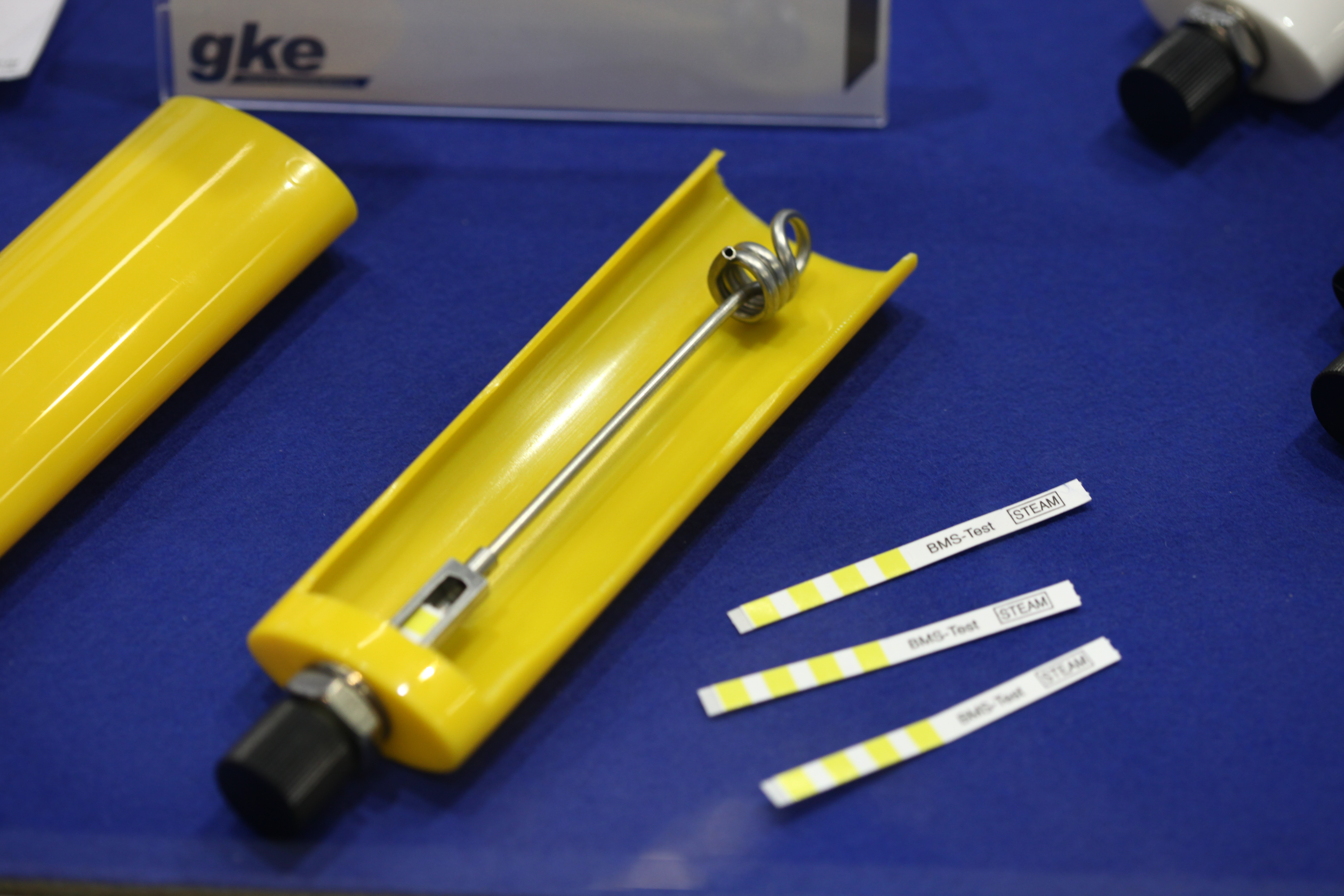 Batch monitoring system, load validation to monitor sterilization processes for dental instruments